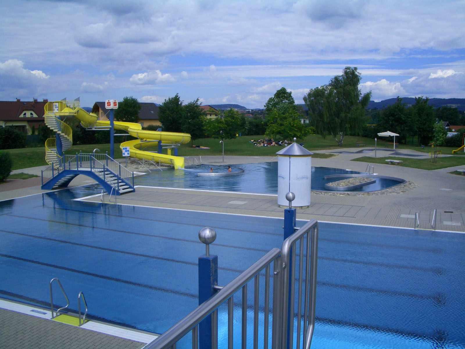 Open air bath "Lagune" in Pregarten